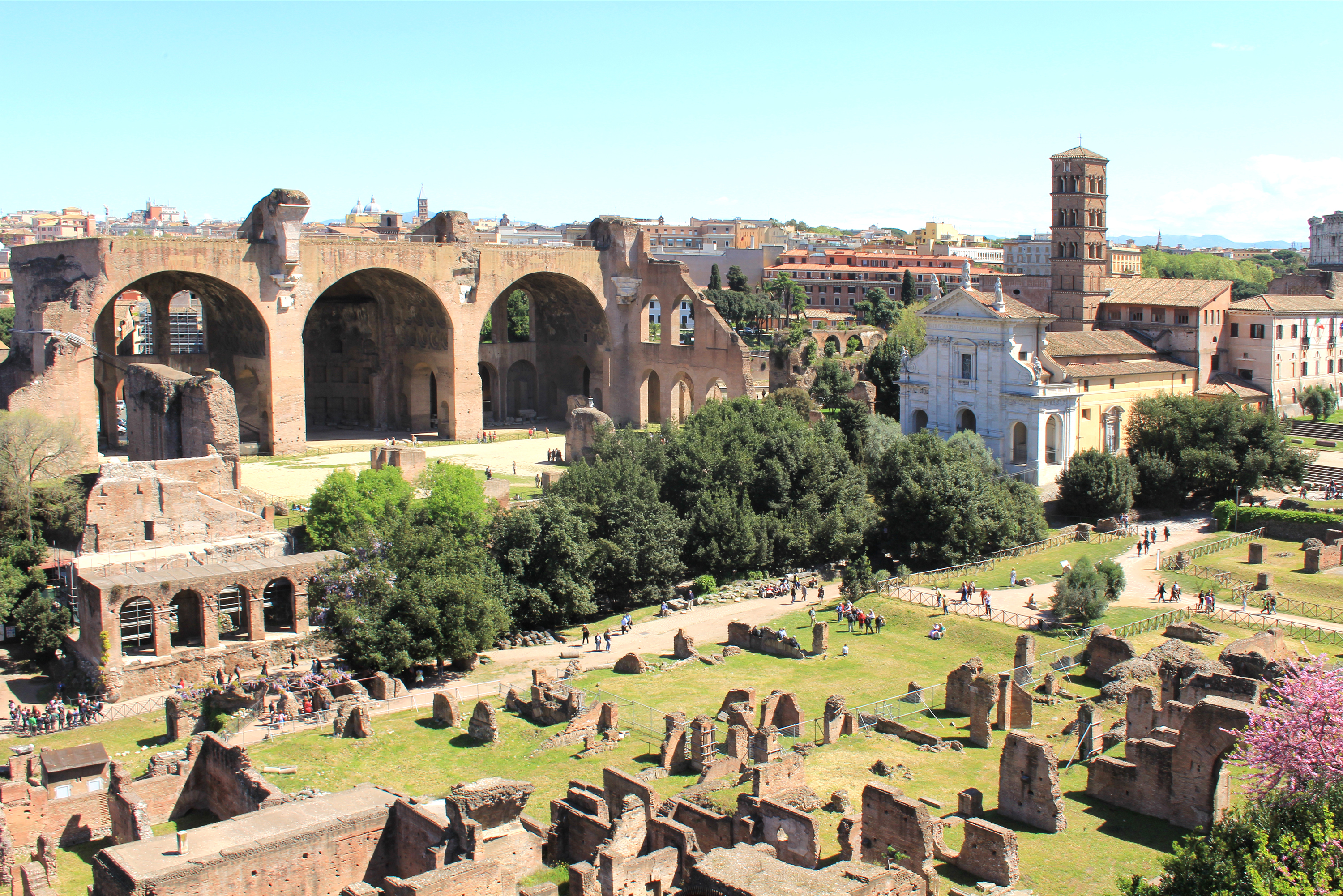 Look from Palatine Hill by direction of Forum Romanum and basilica Santa Francesca Romana, Rome, Italy